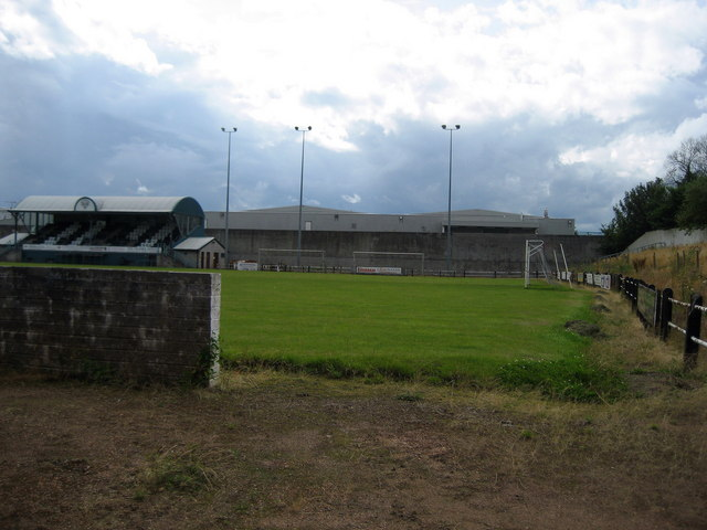 Abandoned Firs Park This used to be the home of East Stirlingshire F.C. - they now play their matches at Stenhousemuir's ground.